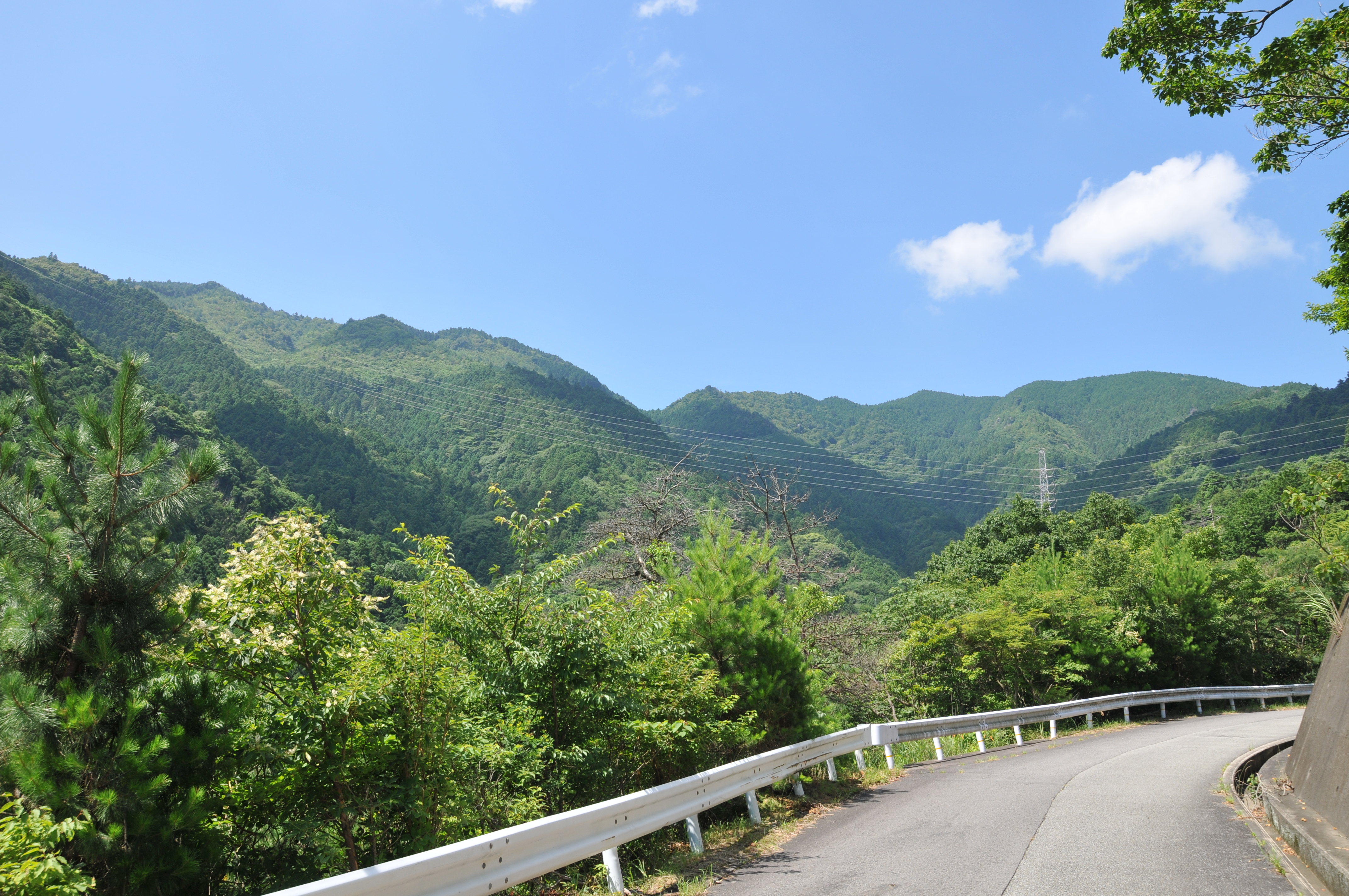 Mount Nakatsumine